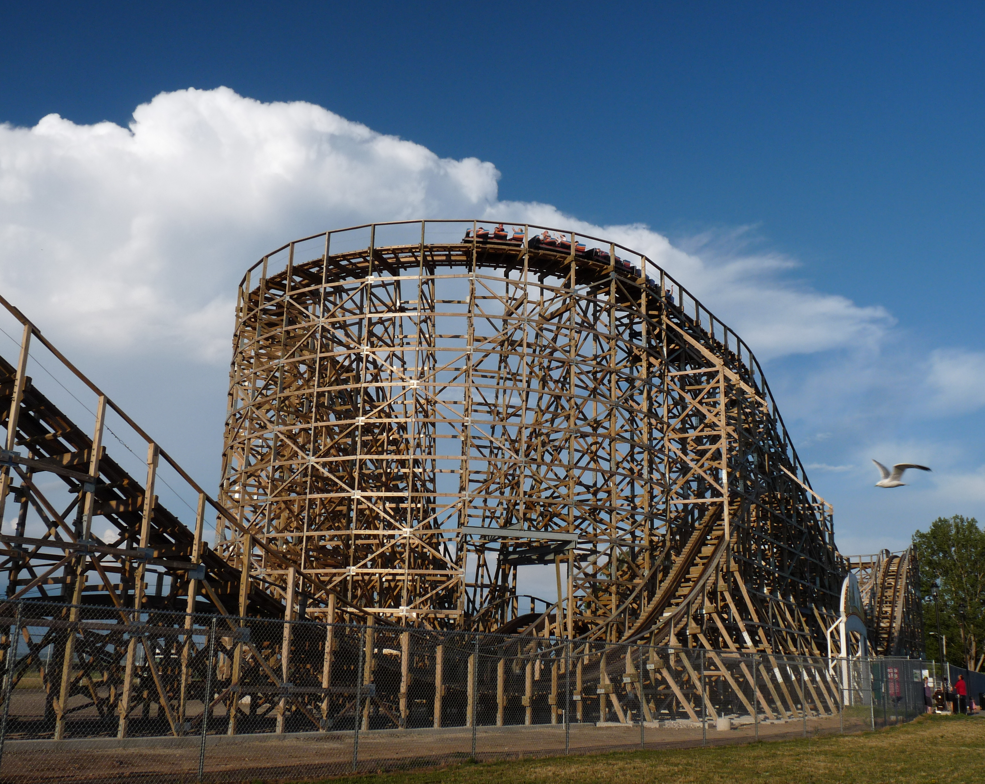 The Zippin Pippin is an old wooden roller coaster now at Bay Beach Amusement Park in Green Bay, Wisconsin. It is listed on the National Register of Historic Places.